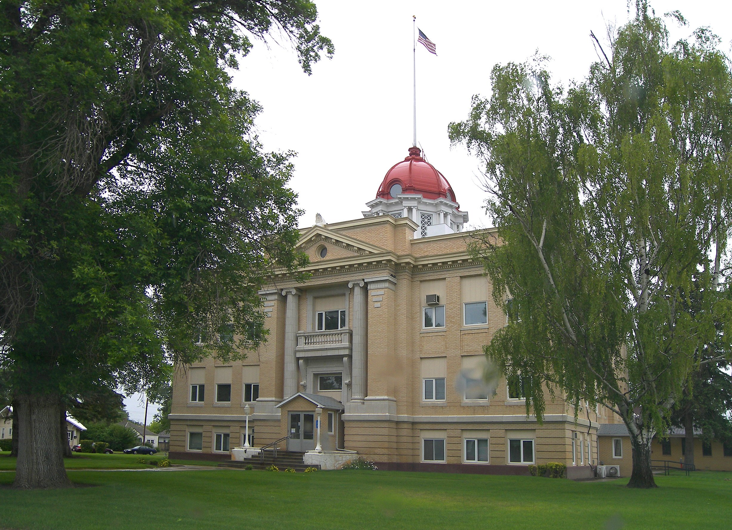 The Richland County, Montana Courthouse located in Sidney, Montana, United States. The image was taken through a windshield on a rainy day so there are a couple of rain drops worth of distortion.